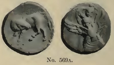 Greek coins and their parent cities (1902) Author: Ward, John, 1832-1912; Hill, George Francis, Sir, 1867-1948 Subject: Coins, Greek; Numismatics, Greek; Greece -- Description, geography; Italy -- Description and travel; Turkey -- Description and travel Publisher: London : Murray Possible copyright status: NOT_IN_COPYRIGHT Language: English Call number: AKB-0671 Digitizing sponsor: MSN Book contributor: Robarts - University of Toronto Collection: toronto Scanfactors: 7